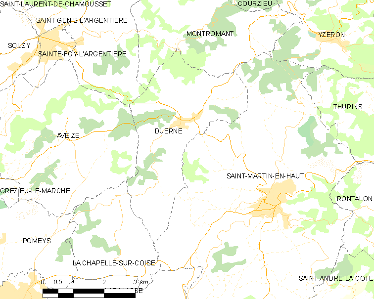 Map of French municipality